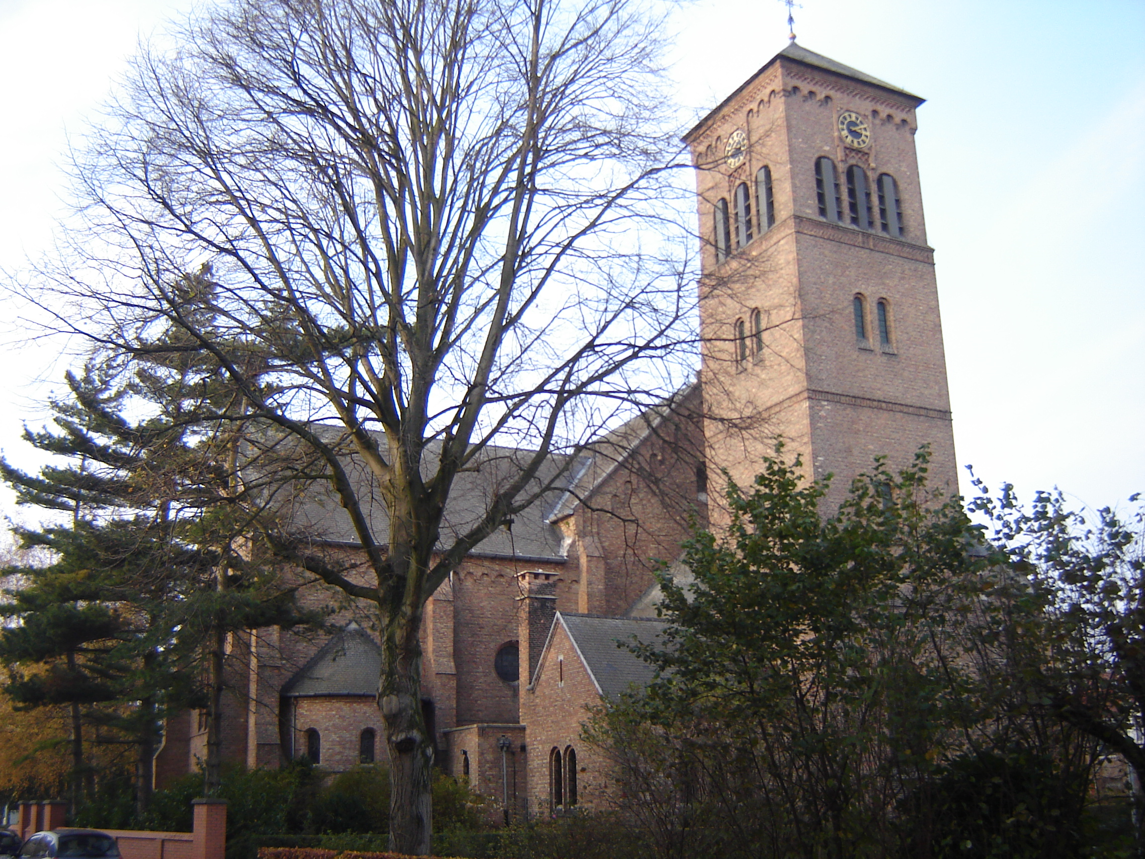 Church of Saint Bavo in Sint-Andries. Sint-Andries, Brugge, West Flanders, Belgium.